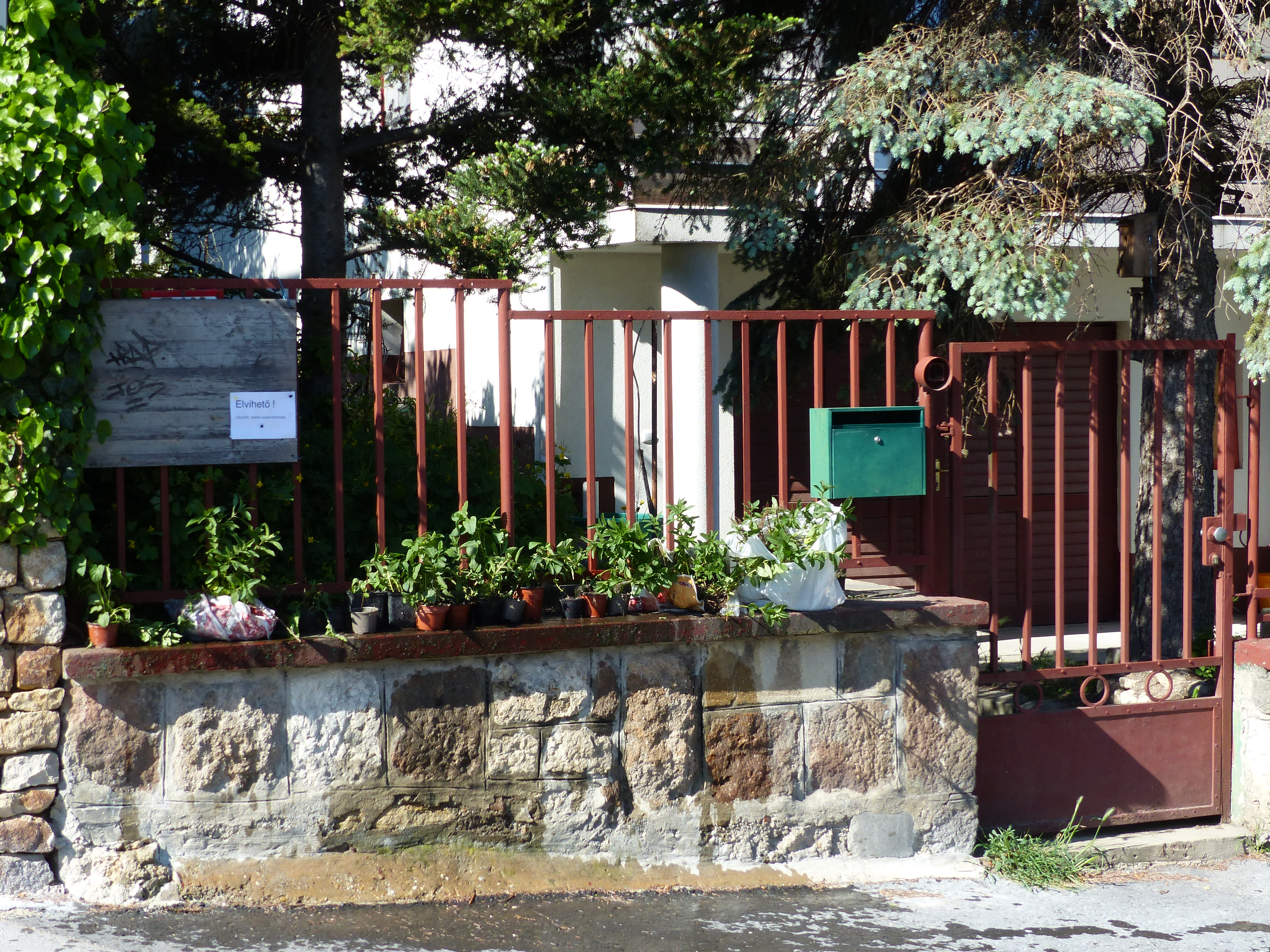 Green sharing. Taken on the 8th of May, 2016. Mint distributed for people at Sashegy, Budapest. Citizens of Sashegy usually plant vegetables in Spring. The used plastic containers can be utilised for those vegetables, spices, that are superfluous. Tags: Green sharing mint balm 2016 at Sashegy 2016 Sashegy